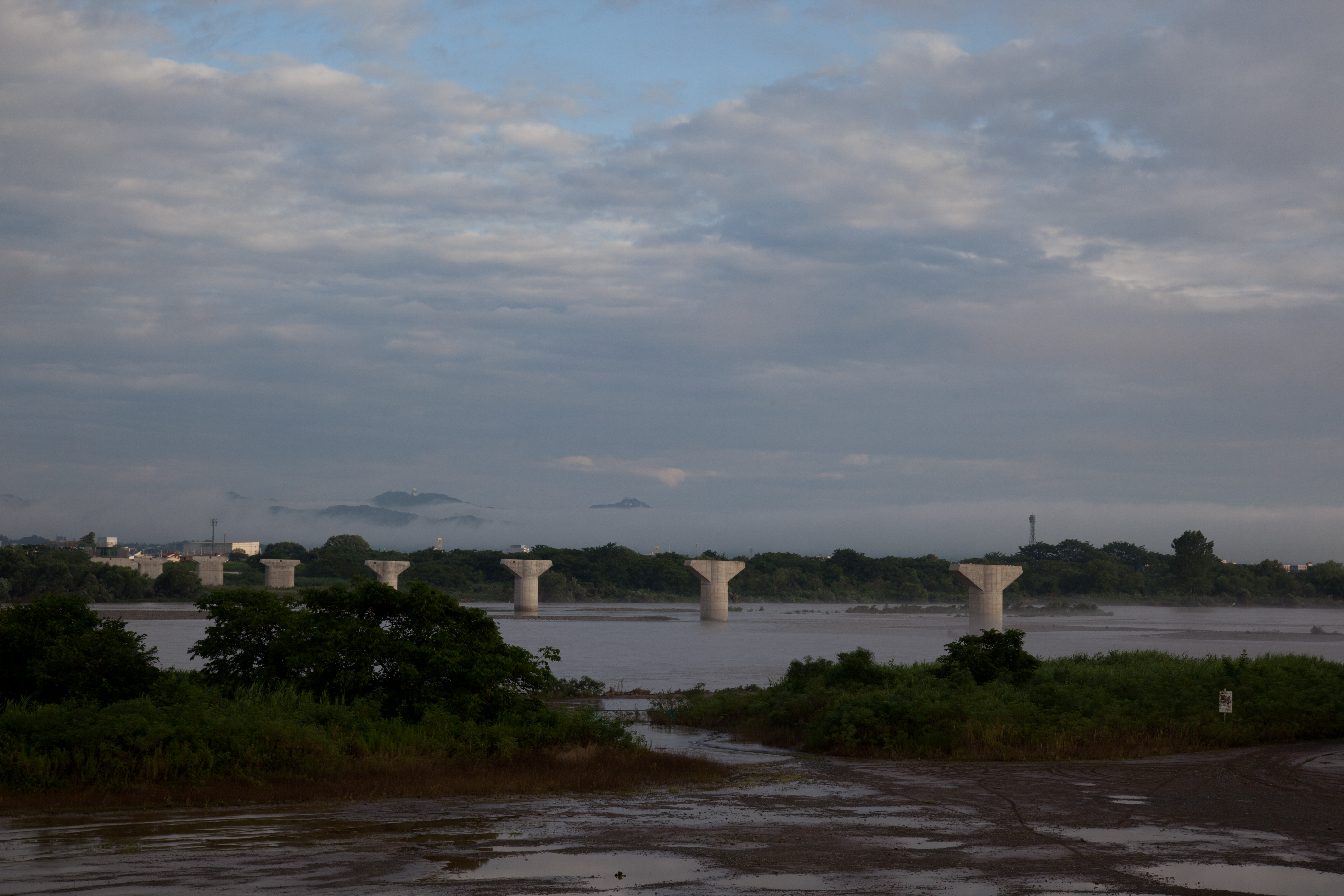 Phoenix Ōhashi Bridge under construction, Nagaoka, Niigata Prefecture, Japan. Traces of the Niigata and Fukushima heavy rainfall in July 2011 are left in the riverbed of the Shinano River.